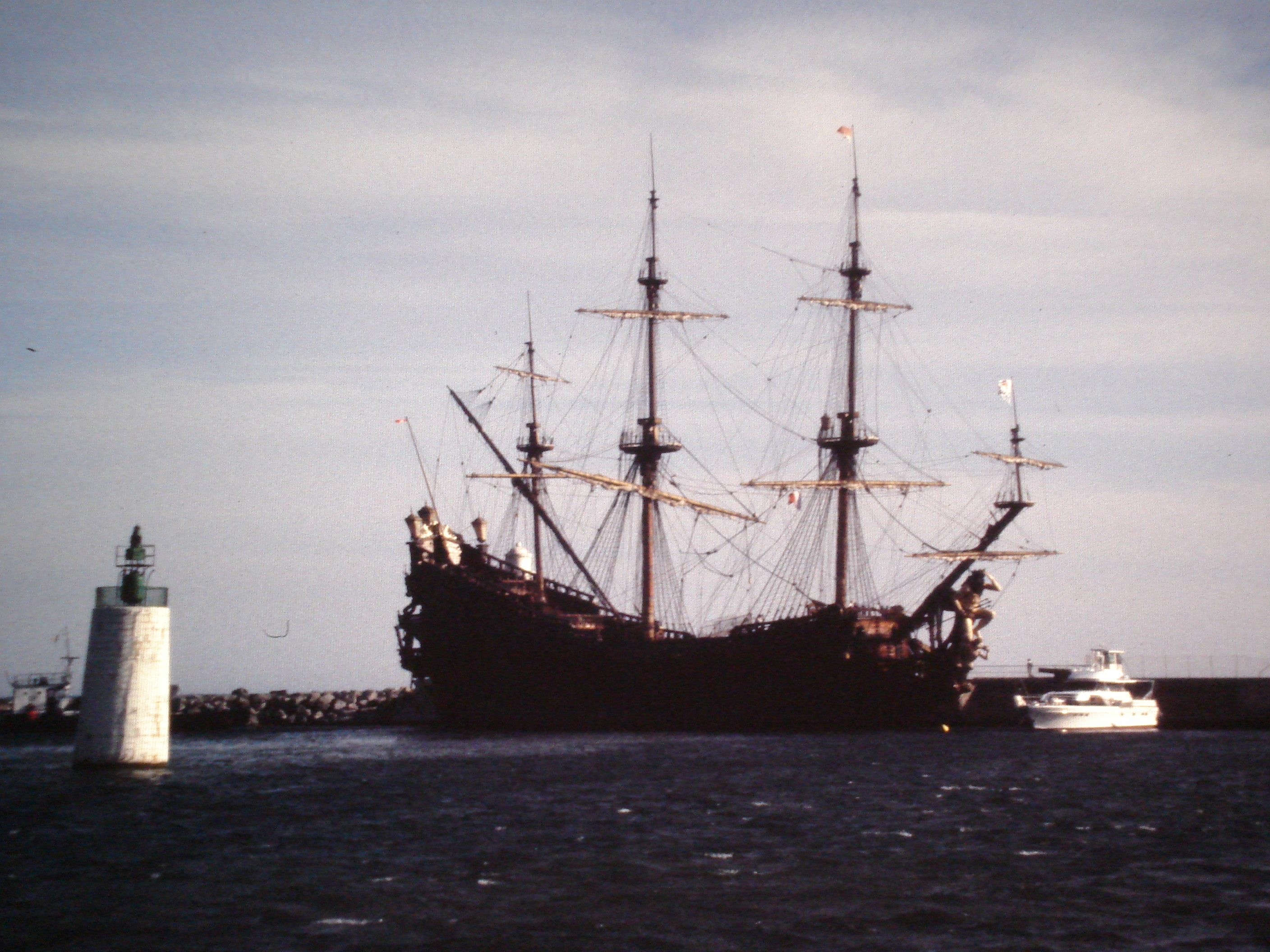 The galleon «Neptune» at the port of Cannes in May 1986 built for the shooting of the «Pirates» of Roman Polański. This sailing ship contributed later on to the promotion of the film. Taken by User: Fekist